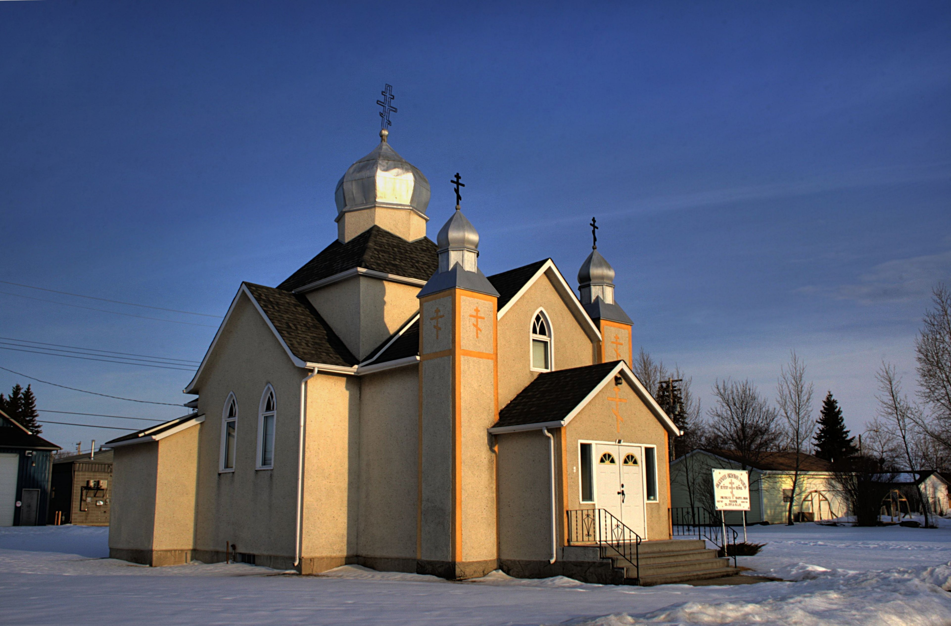 The St. Peter and St. Paul Ukrainian Orthodox Church in Thorsby, Alberta, Canada.